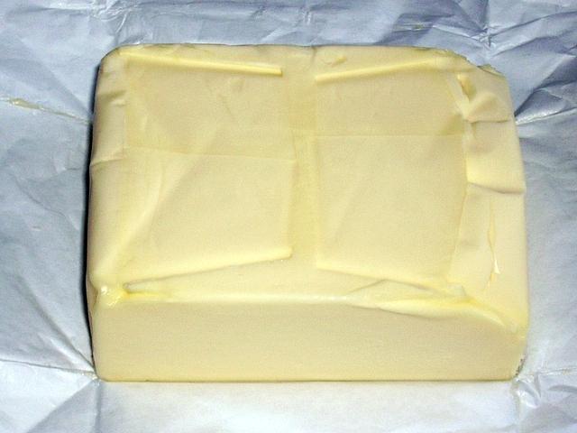 250 g butter